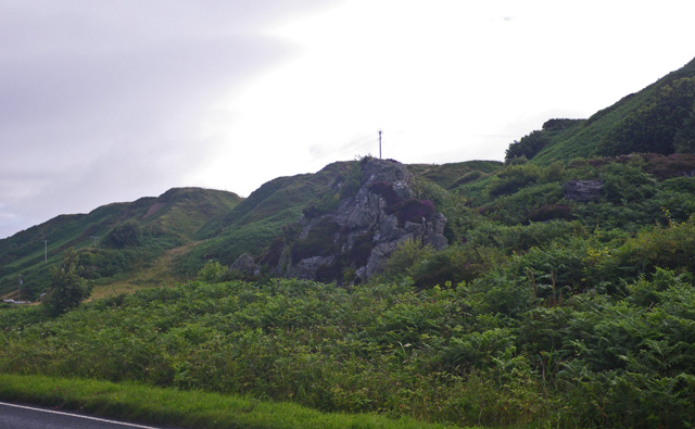 Humpy vegetation laden outcrops north of Muasdale, near to Muasdale, Argyll And Bute, Great Britain. These strange rocky humps resemble a giant prehistoric stegosaurus rising up from beneath the vegetation, displaying its somewhat irregular dorsal plates. The view is from the coastal highway.